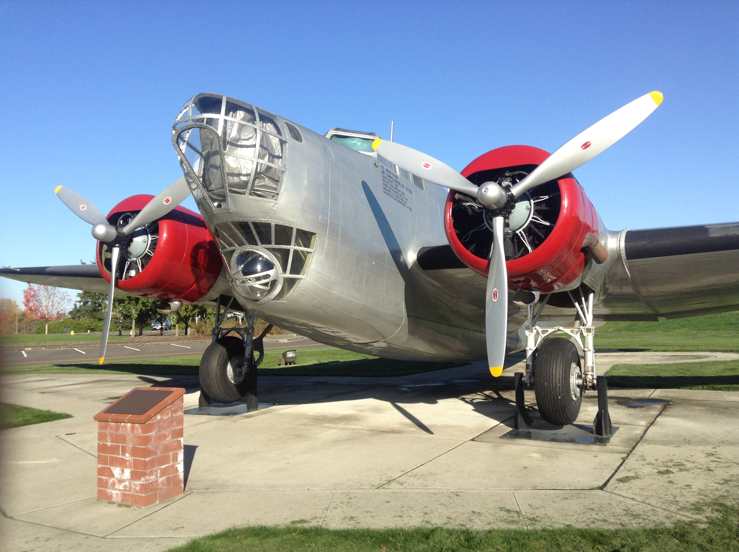 Douglas B-18 Bolo JBLM